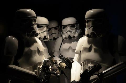 Stormtroopers